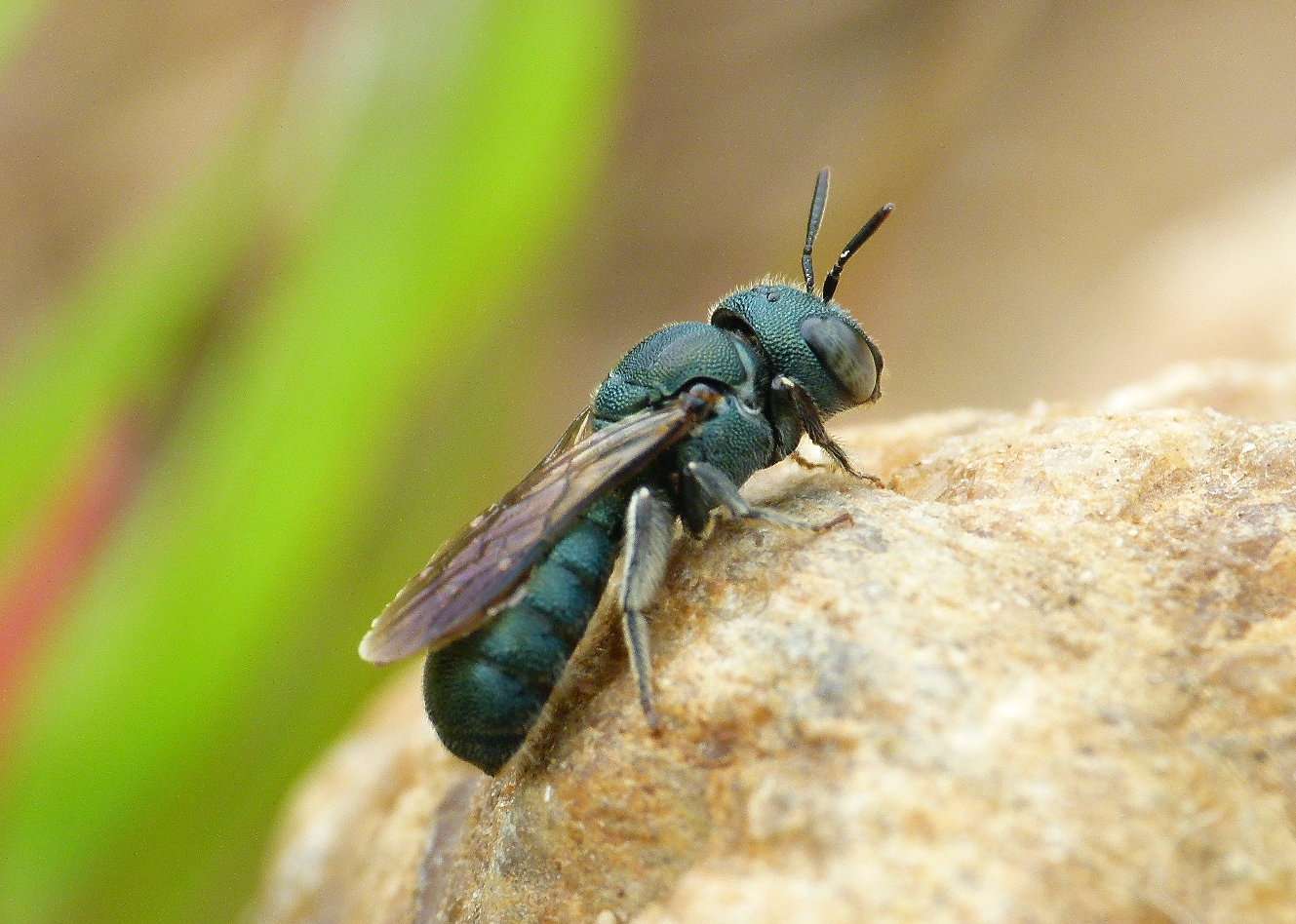 Ceratina sp., Xylocopinae. Western Ghats (Shishilagudda near Mudigere). Karnataka.